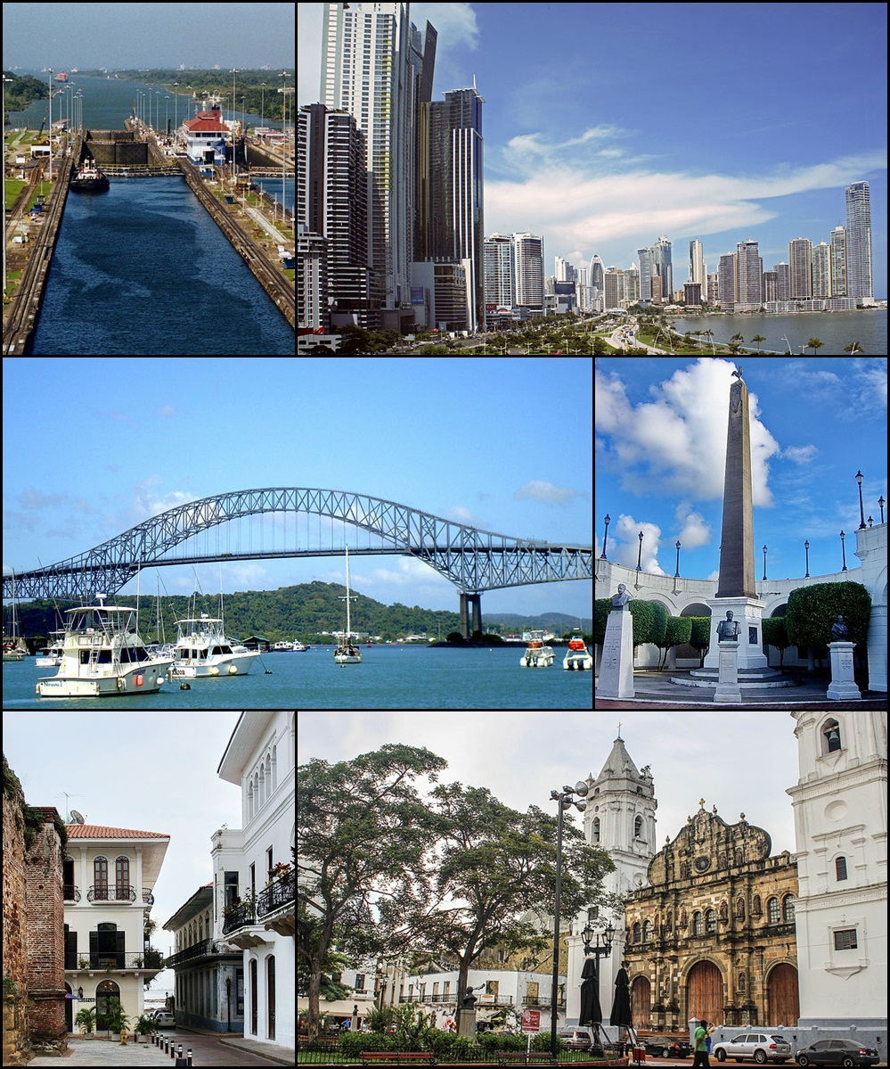 Photo montage of the city of Panama